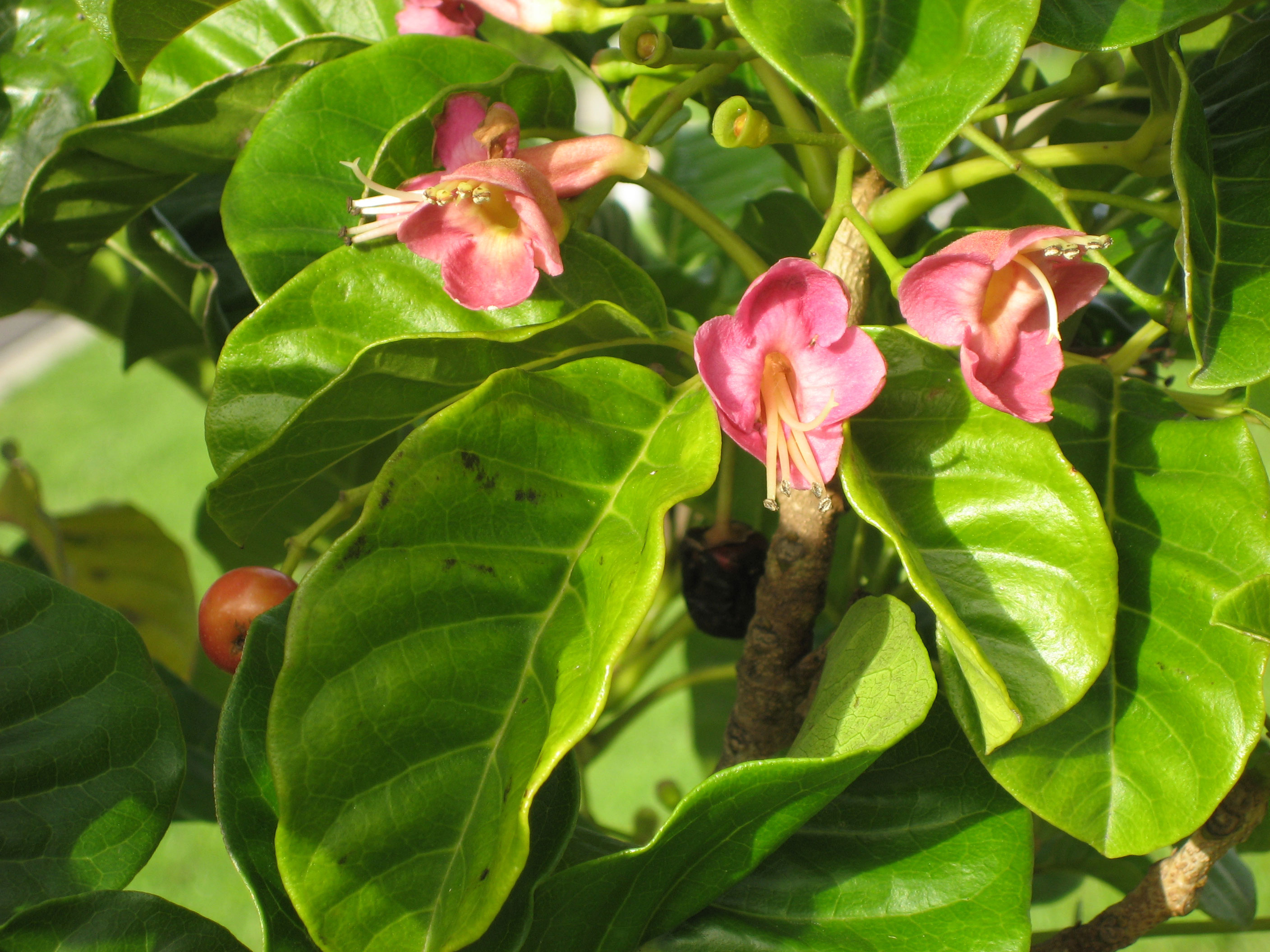 Flowers of Vitex lucens, Pūriri tree, Auckland, New Zealand.